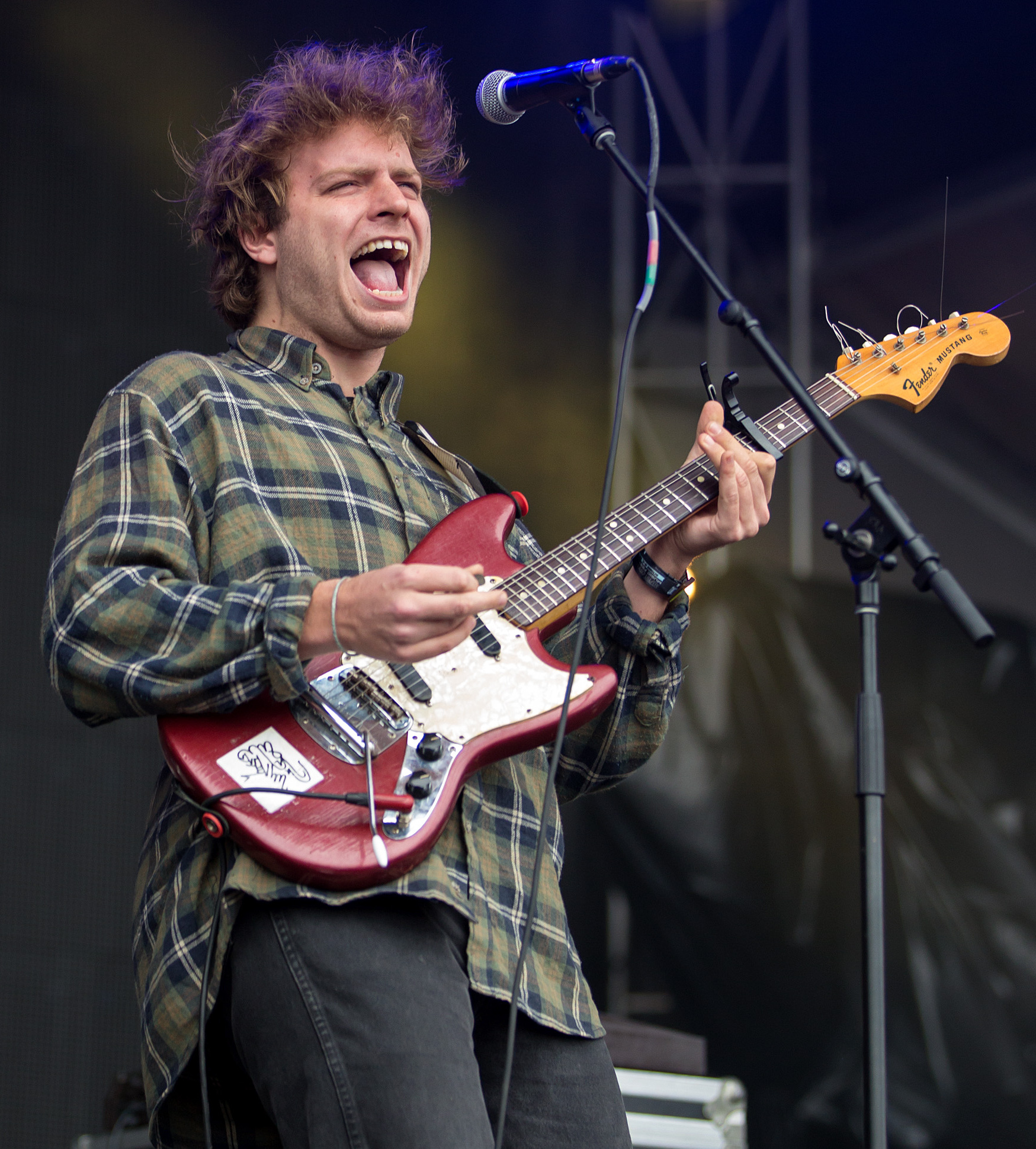 Mac DeMarco performing at the Austin City Limits Music Festival at Austin, Texas in 2014